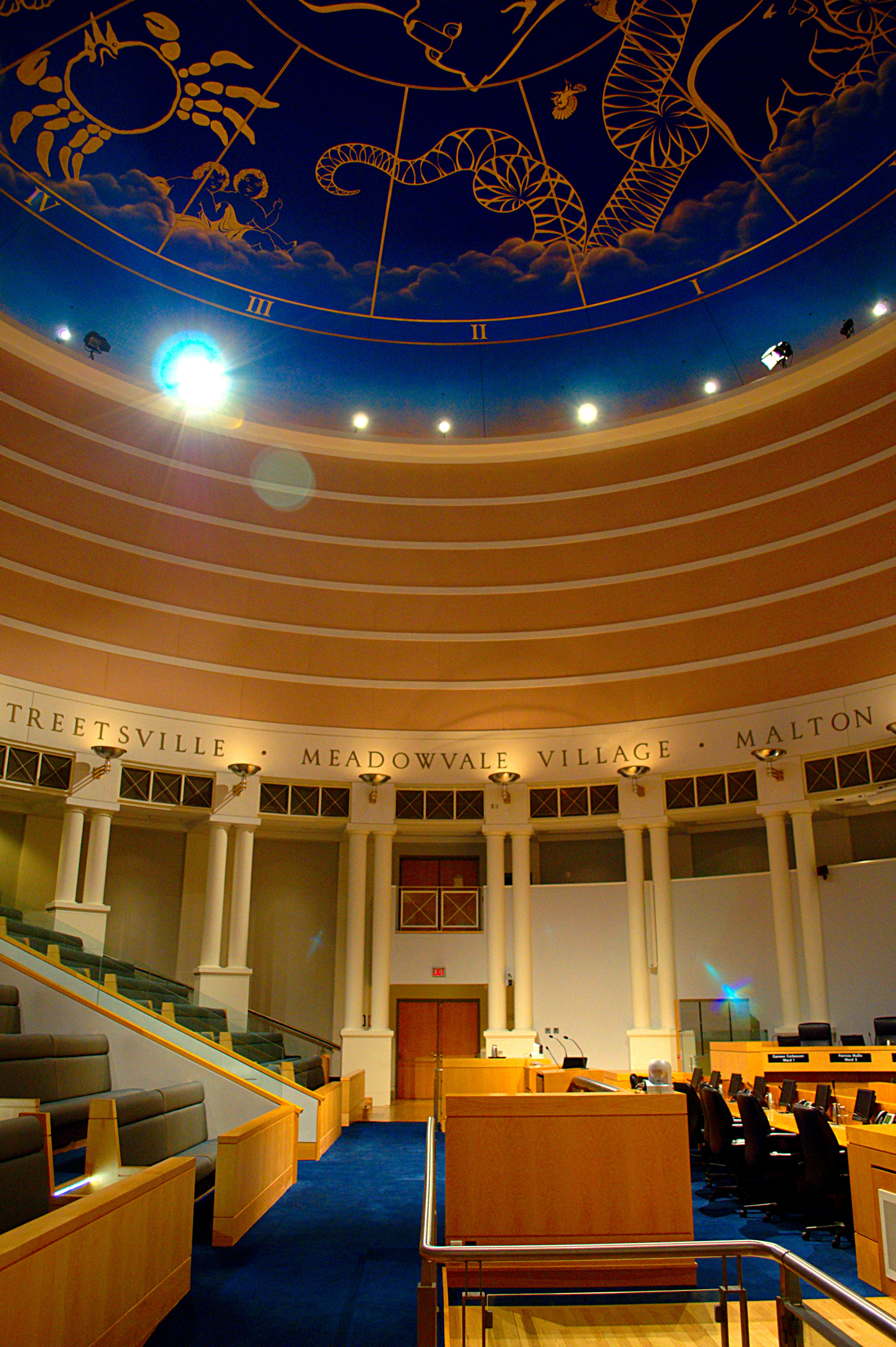 Council Chamber, Mississauga Civic Centre @ Doors Open 2009.